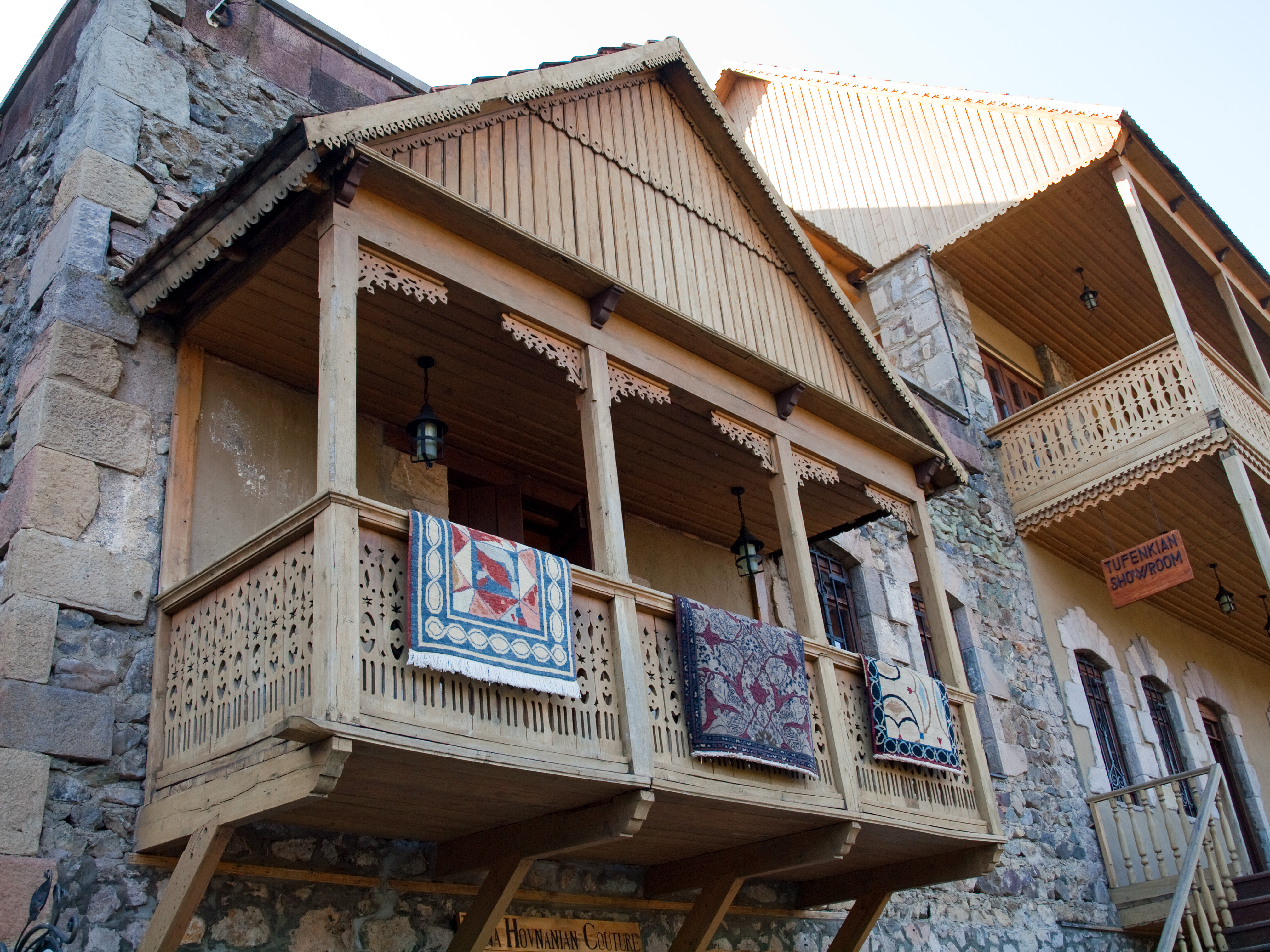 Armenia - Day 4 - 21 September 2010. n the 1800s, the age-old Armenian city of Dilijan was known as a blossoming centre of culture, commerce and cuisine. In order to enjoy the region's picturesque landscape, wealthy vacationers from Tbilisi and Baku and beyond flocked to Dilijan in increasing numbers, giving the town a international culture. In 2004, Tufenkian began restoring the historical district (Sharambeyan Street) of modern-day Dilijan.